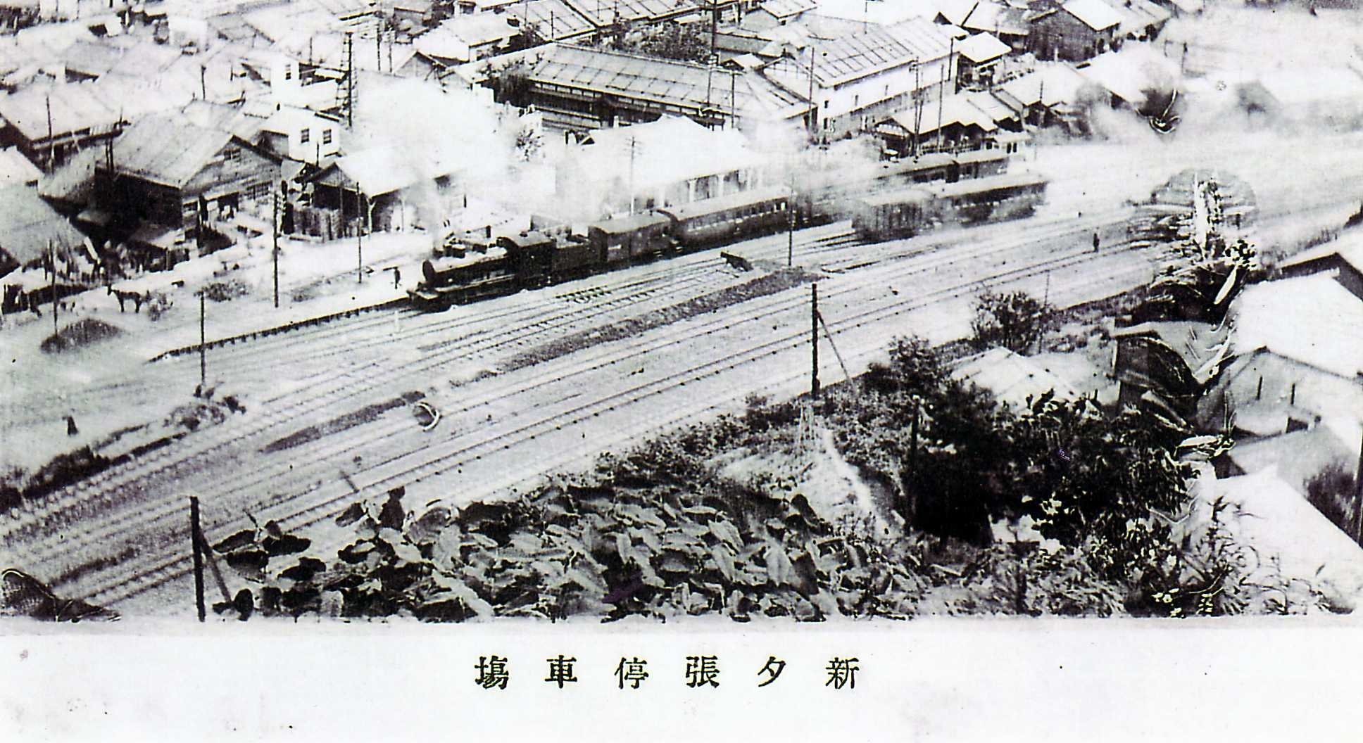 View of the New Yubari Station in Hokkaido